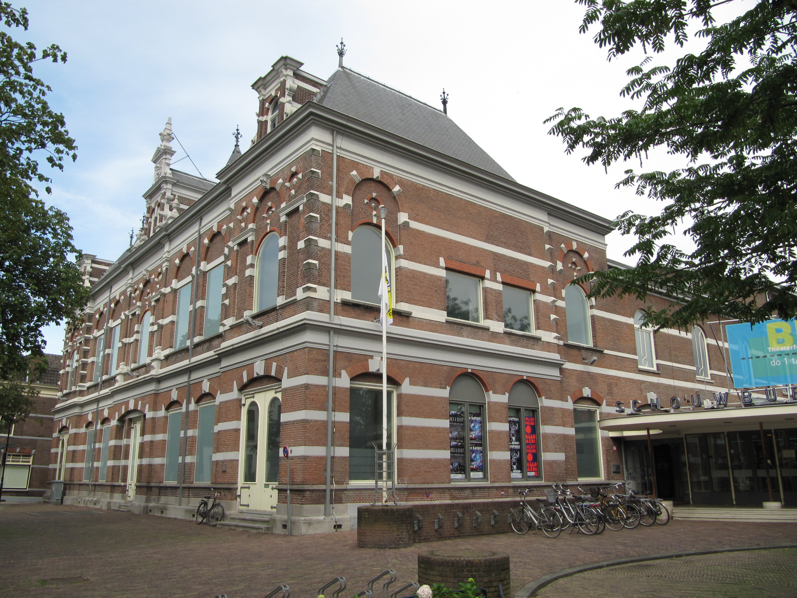 Theater Kunstmin, Dordrecht, the Netherlands. Front en side wall.